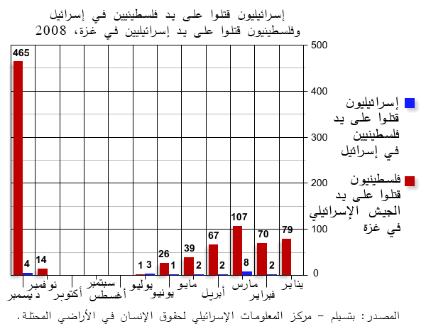 Israelis killed by Palestinians in Israel and Palestinians killed by Israelis in Gaza, 2008